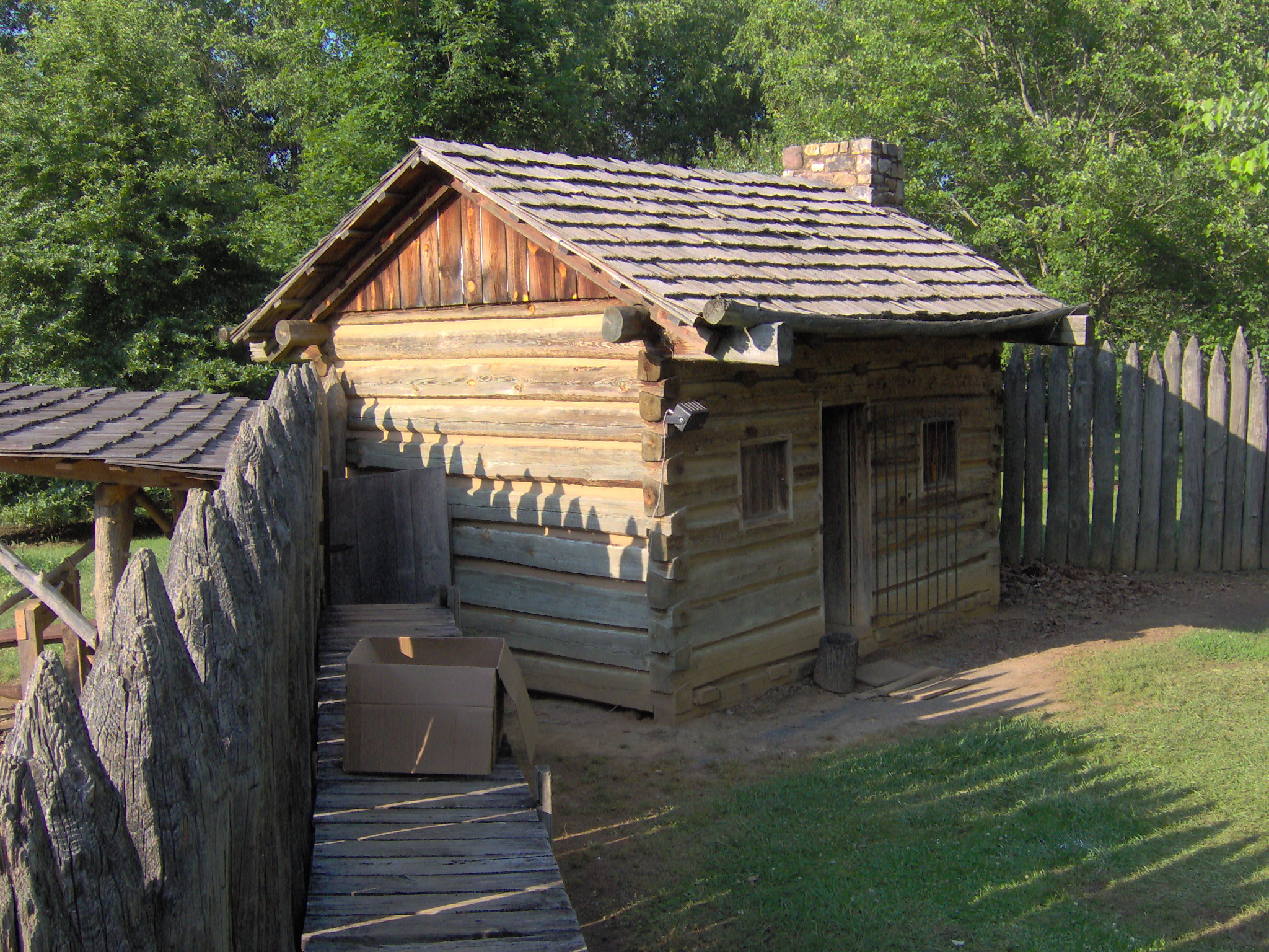 Palisades, parapet, and corner cabin at the reconstructed Fort Watauga at Sycamore Shoals State Historic Park in the U.S. state of Tennessee.